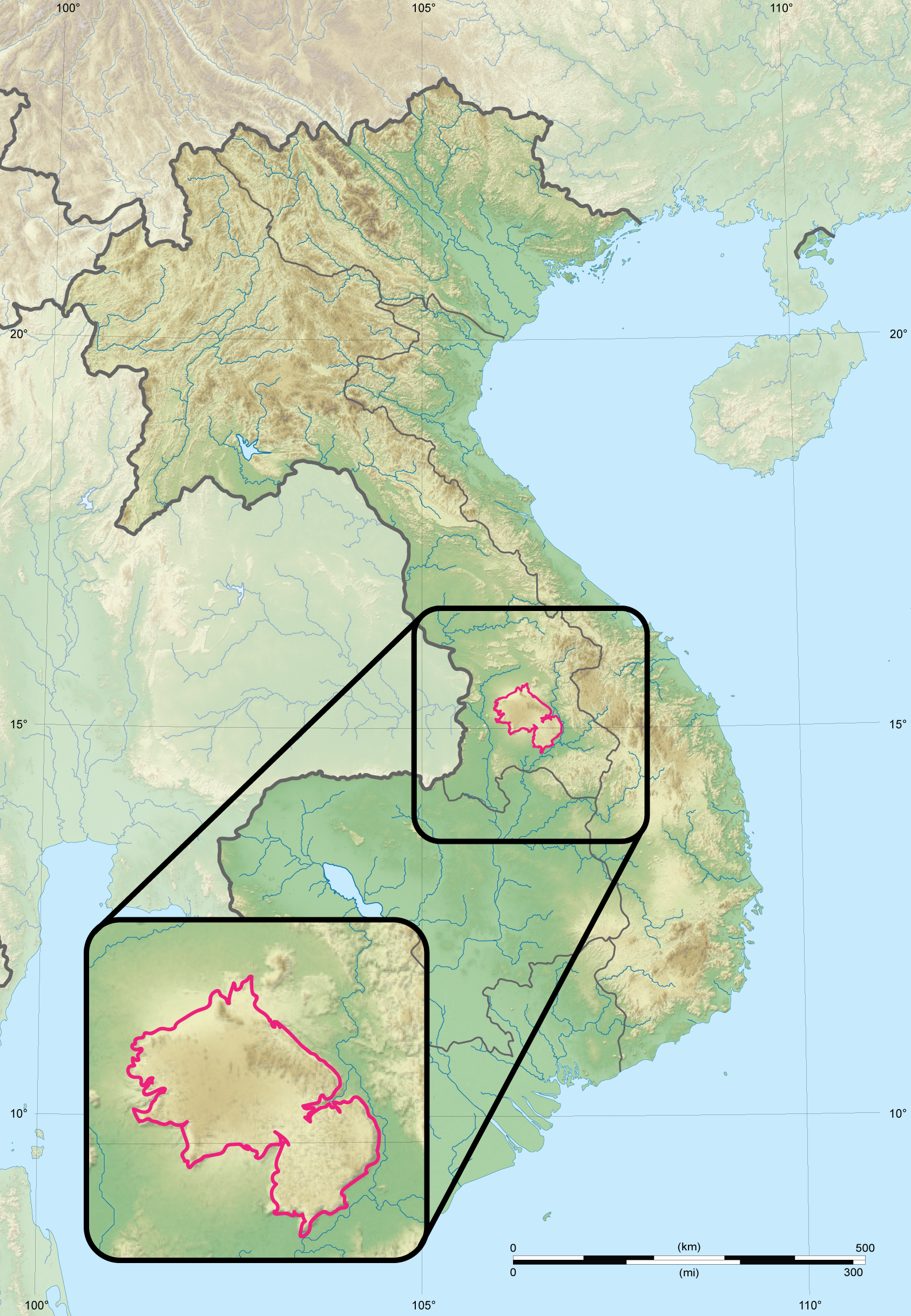 The Bolaven Plateau on the 1900-1945 Indochina topographic map.